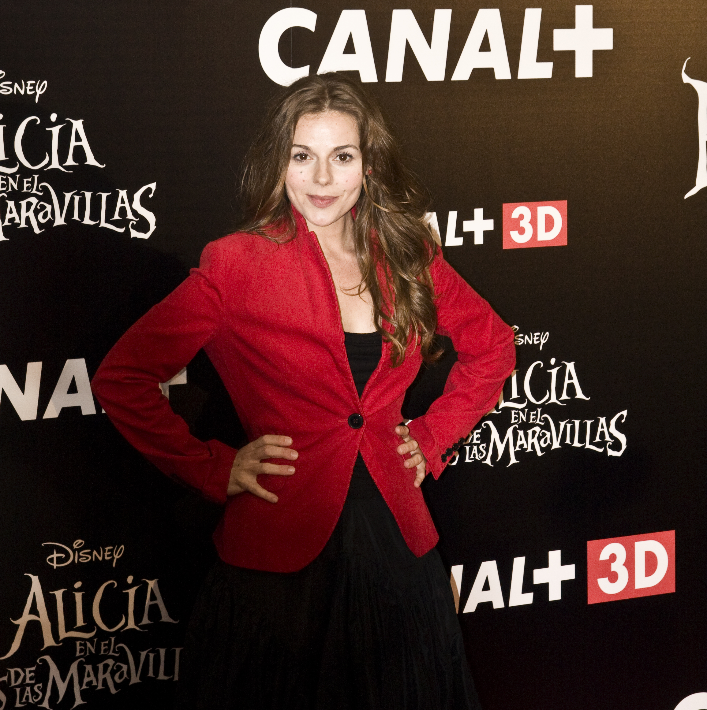 Miryam Gallego Spanish actress at the photocall of Alice in Wonderland in 2010.